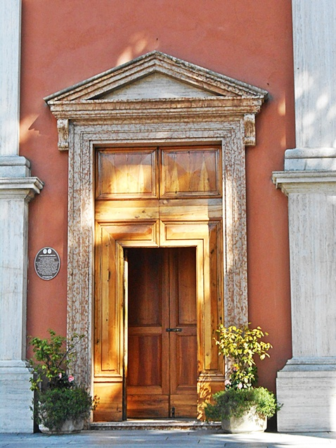 entrance door